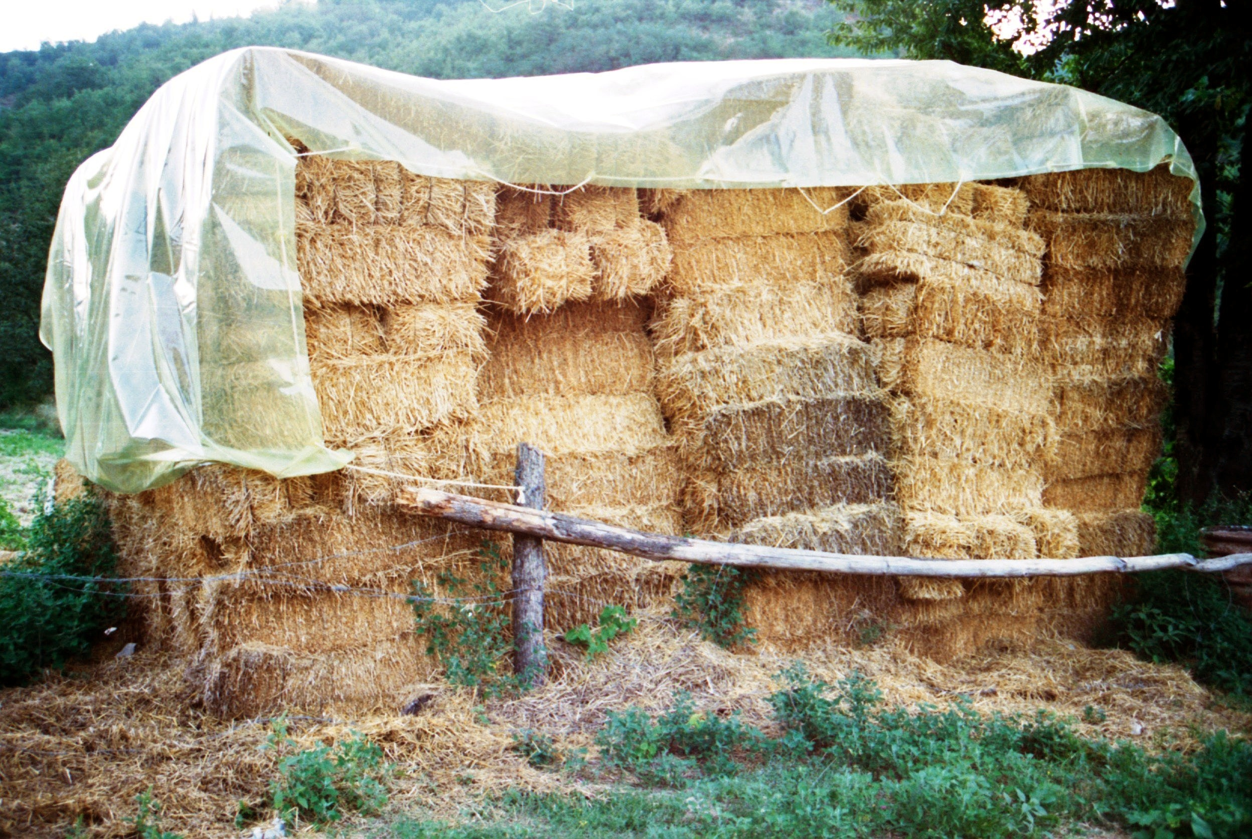 Pile of straw in Xanthi, Thrace, Greece.